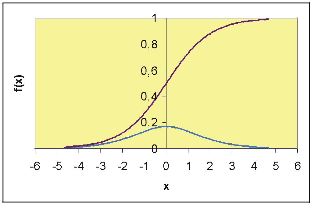 Logistic Distribution funktion, density funktion with parameters: Expectation 0, Variance 7.4